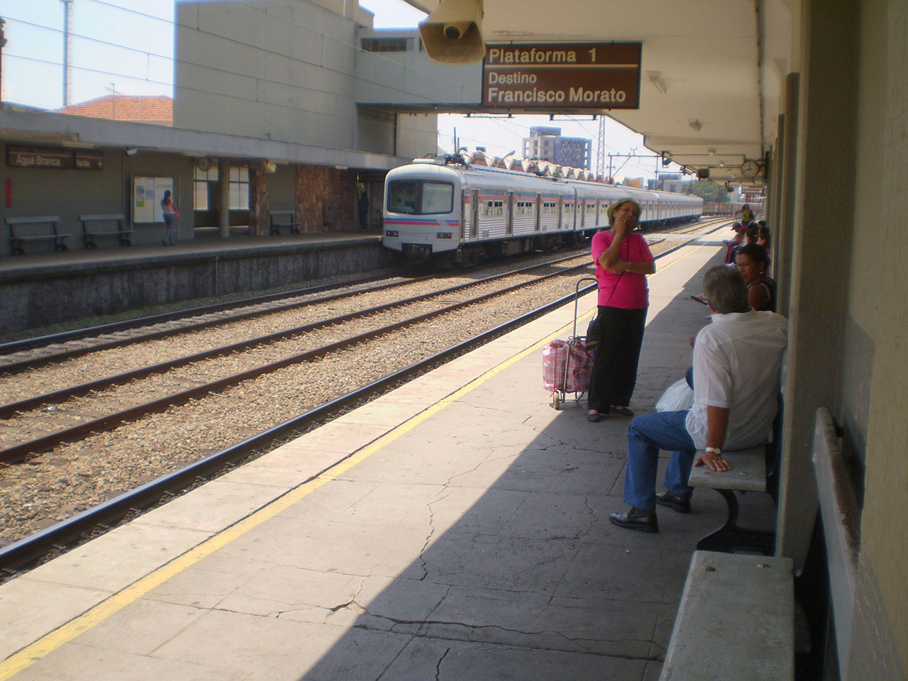 Agua Branca (line 7) train station, Barra Funda neighbourhood, São Paulo city, São Paulo state, Brazil